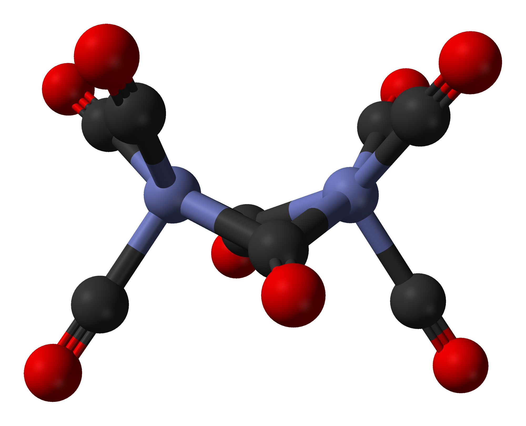 Ball-and-stick model of the C2v bridged isomer of dicobalt octacarbonyl, Co2(CO)8. Colour code: Cobalt, Co: blue-grey Carbon, C: grey-black Oxygen, O: red Structure determined by X-ray crystallography and reported in Acta Cryst. (1983) B39, 535–542 (FOHDEL04). Model manipulated in CrystalMaker 8.7. Image generated in Accelrys DS Visualizer.